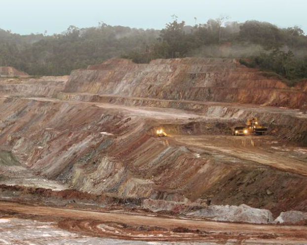 Rosebel Mine in Suriname